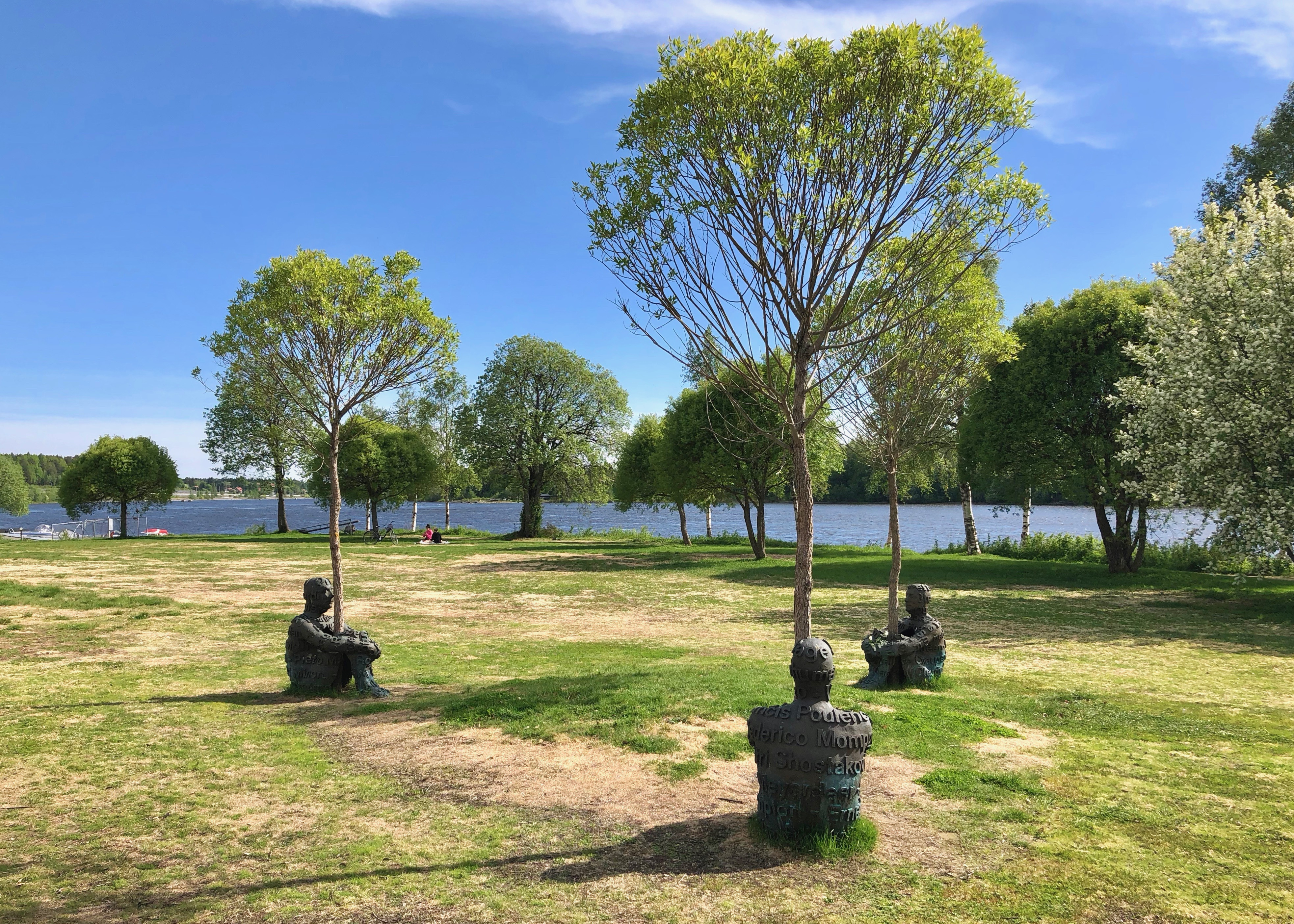 Heart of Trees, sculpture by Jaume Plensa in Öbacakparken, Umeå, Sweden.